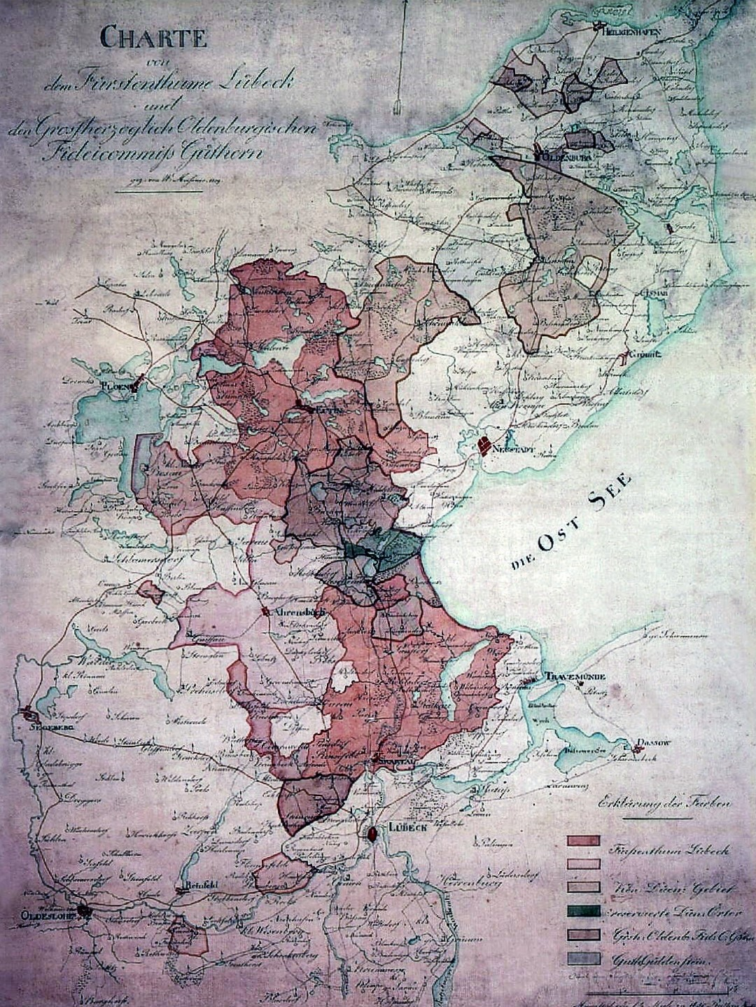 Map of the Fürstentum Lübeck (Principality of Lübeck).